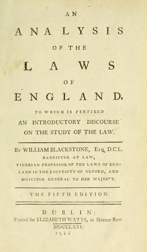 The front cover of William Blackstone's An Analysis of the Laws of England